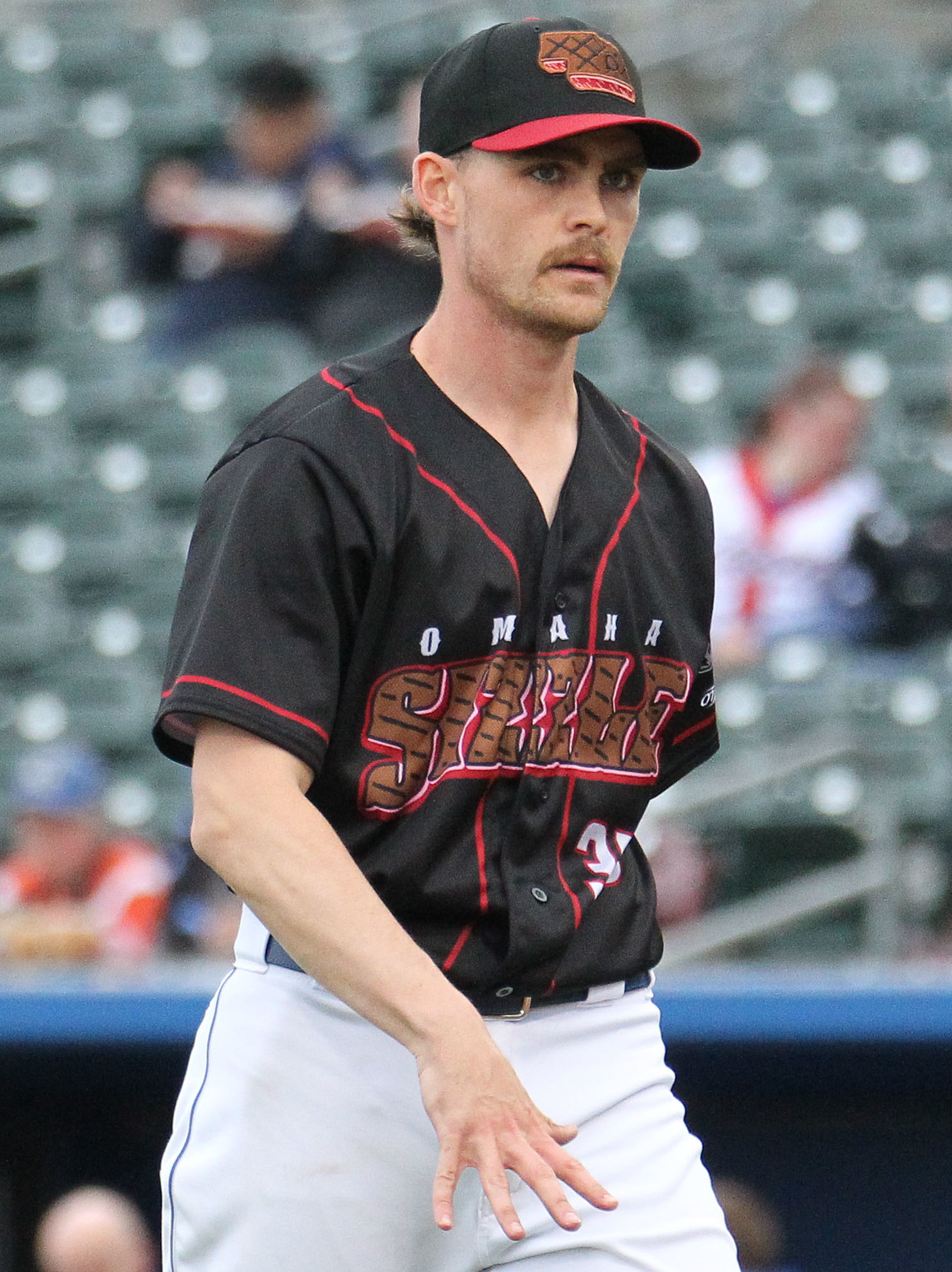 Josh Staumont of the Omaha Storm Chasers during a 2019 game at Werner Park in Nebraska